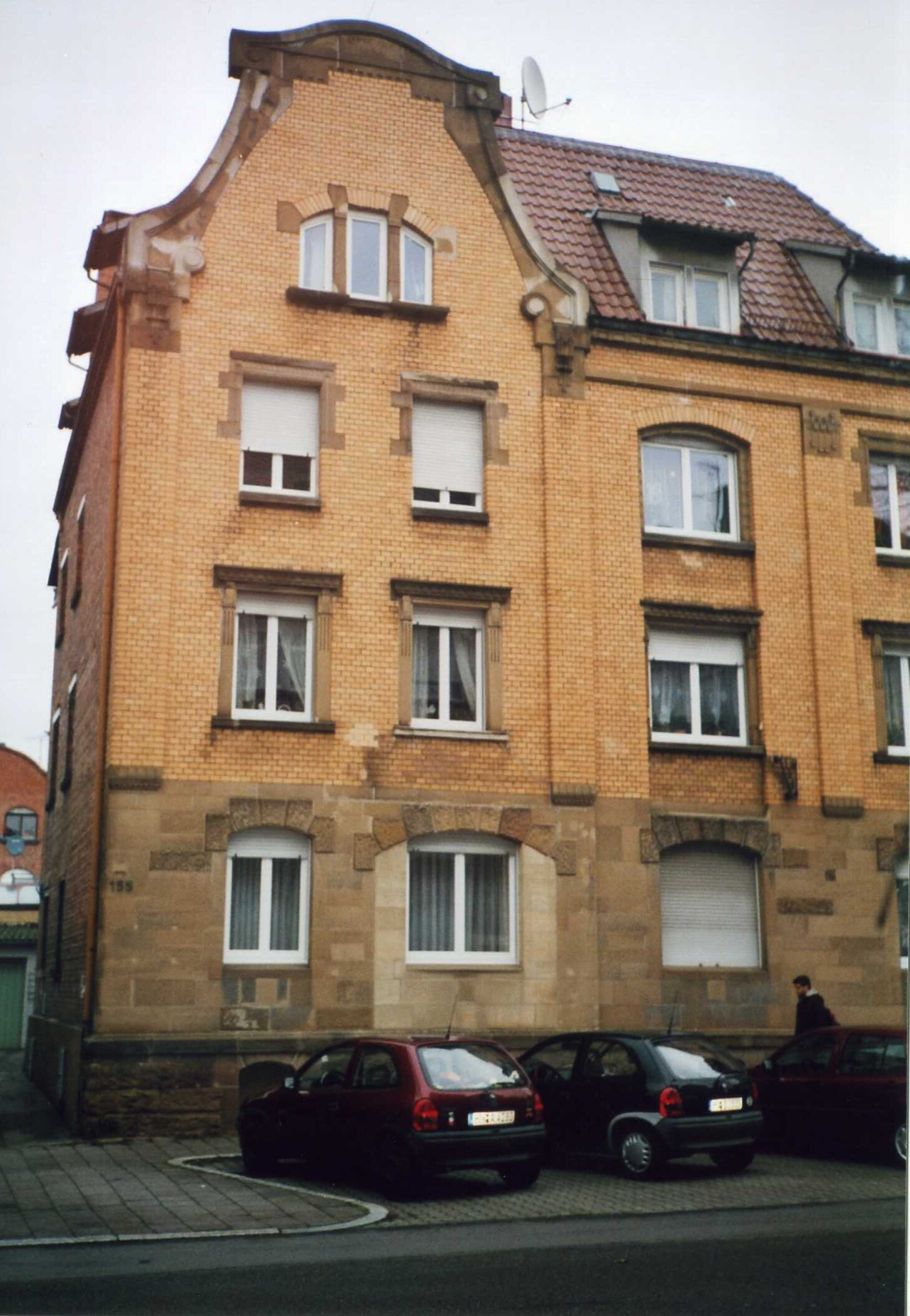 Heilbronn